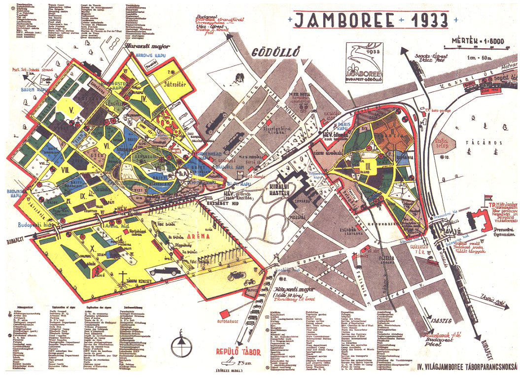 Location map and guide to the 4th World Jamboree held in Gödöllő, Hungary from August 2 to August 13, 1933.